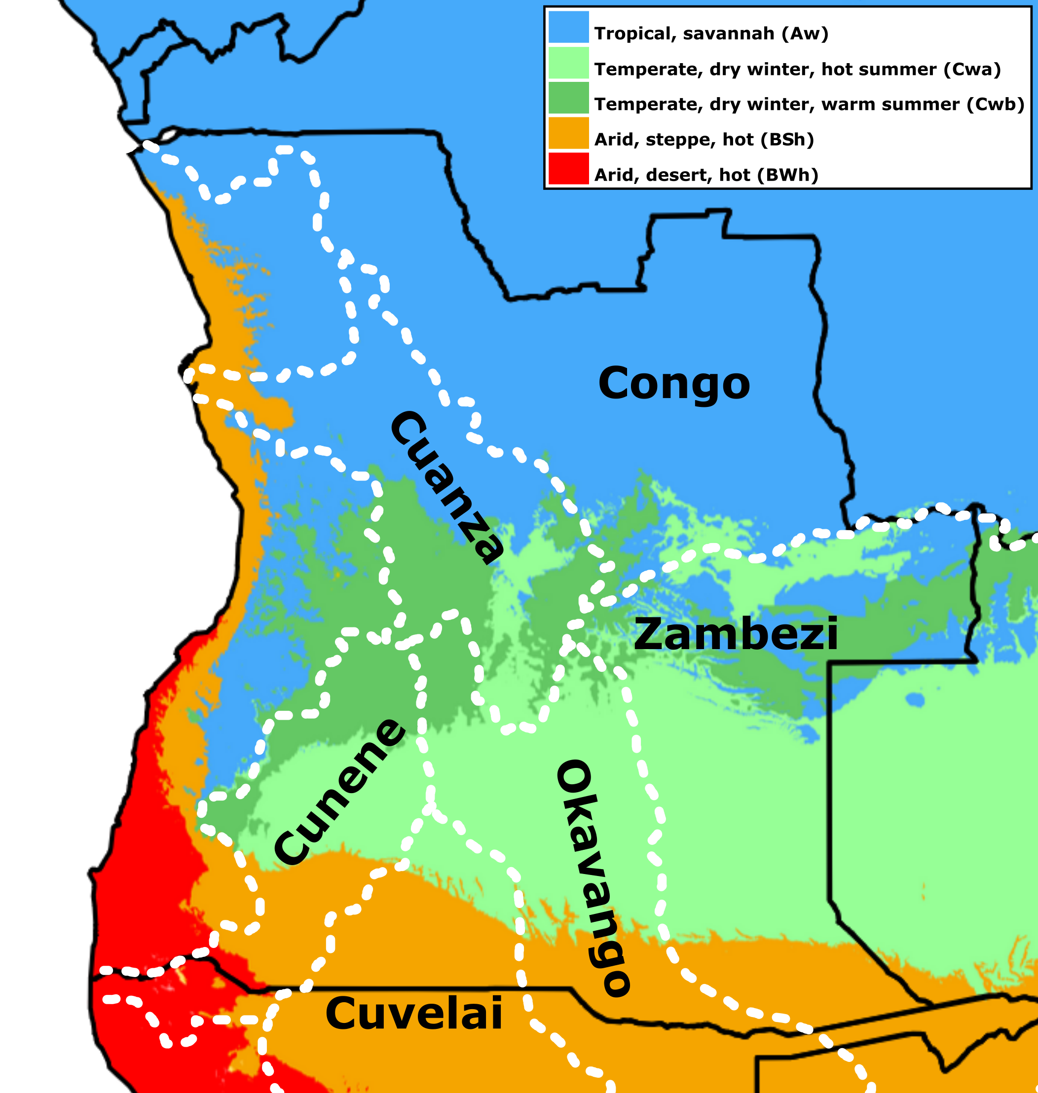 The catchment areas of Angola underlays with climate zones according to Koeppen - Geiger